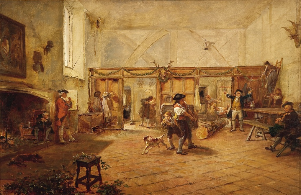 Painting of the Yule Log being brought in at Hever Castle